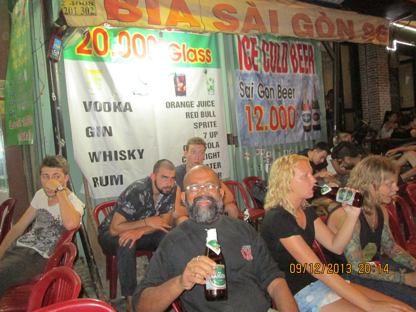 The ultimate night-life in Ho Chi Minh, "Bui Vien Street".